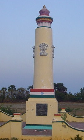 Vedaranyam stubi